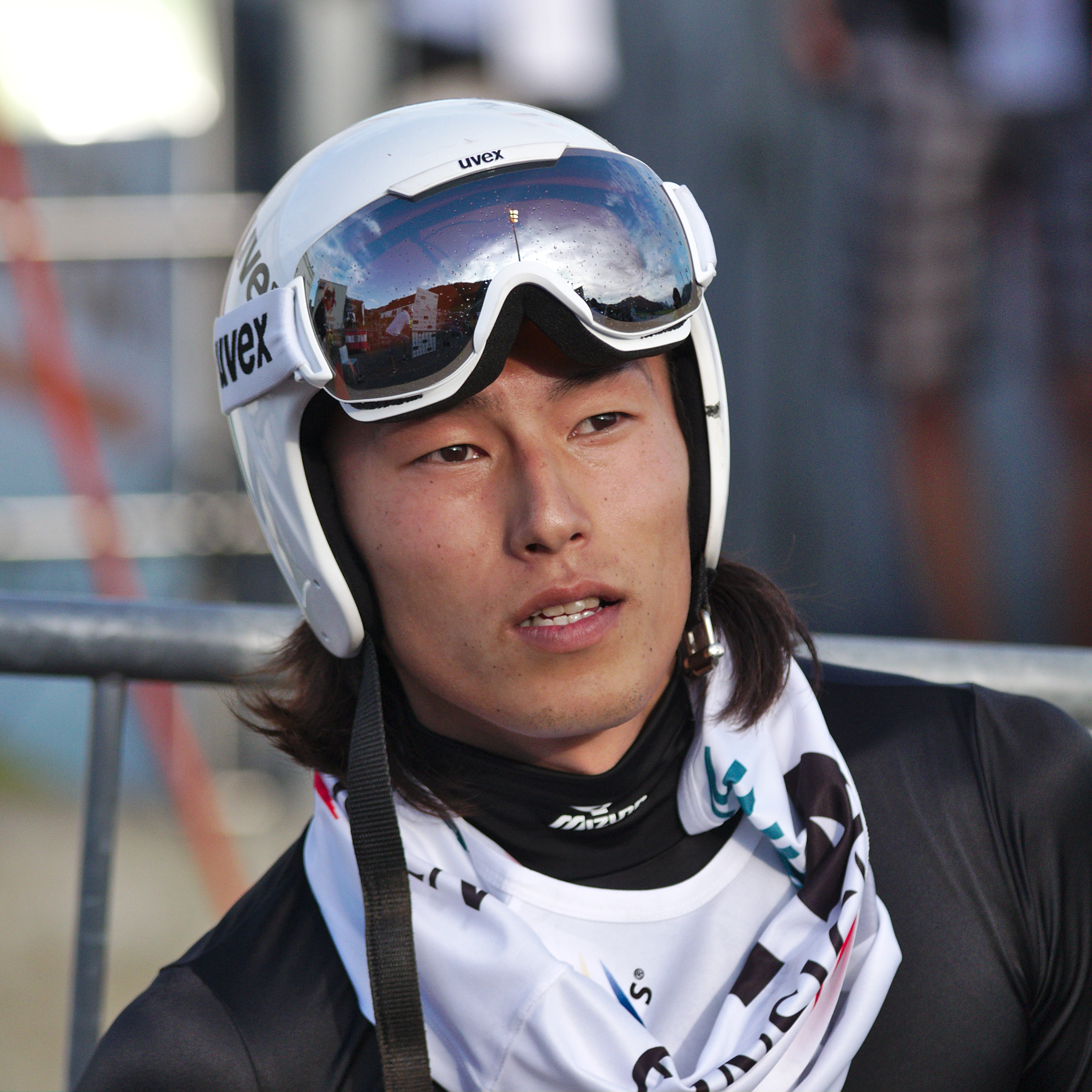 FIS Sommer Grand Prix 2014 - 20140809 - Kenshiro Ito